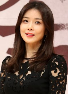 in an award ceromony